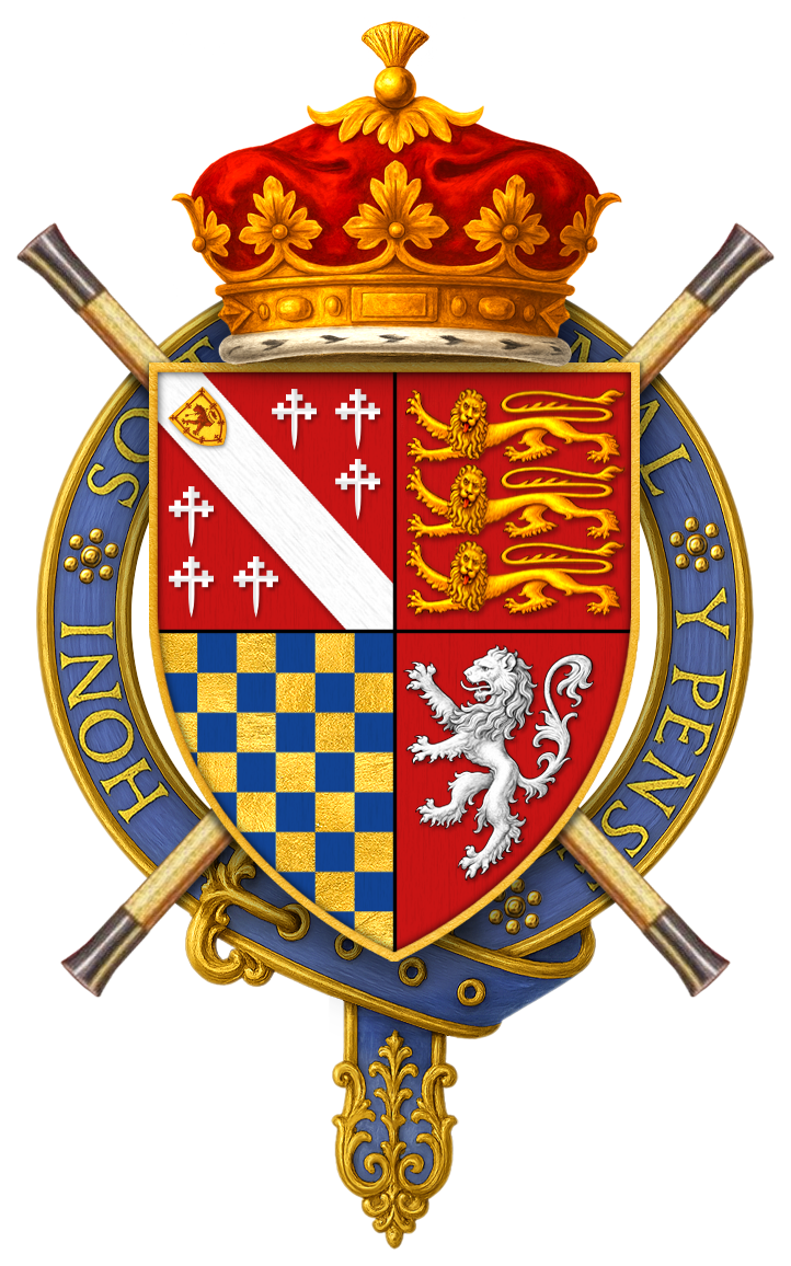 Coat of arms of Henry Howard, 7th Duke of Norfolk, KG, PC, Earl Marshal